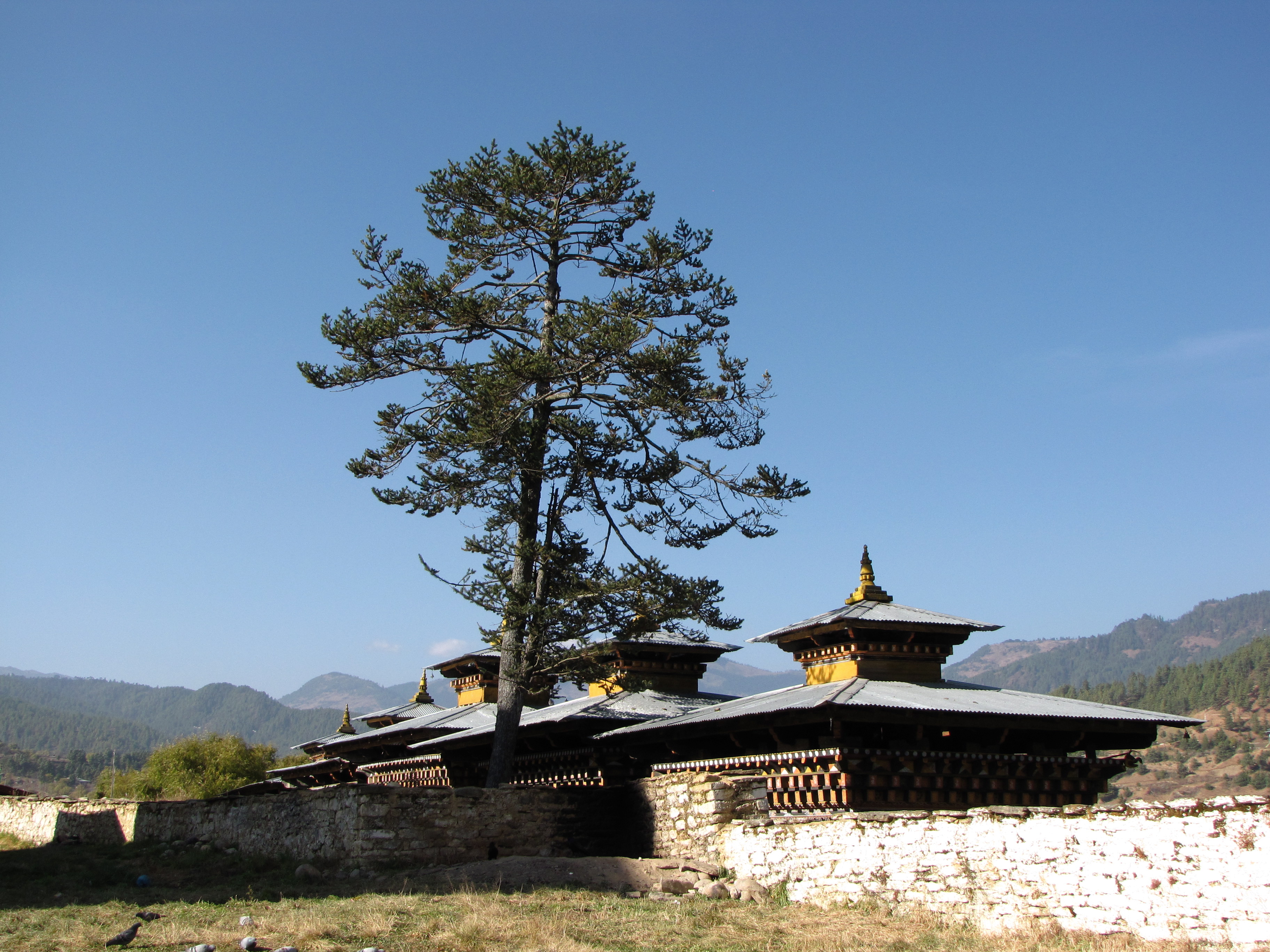 Wangdicholing Palace, Bumthang, Bhutan, with Abies densa tree.